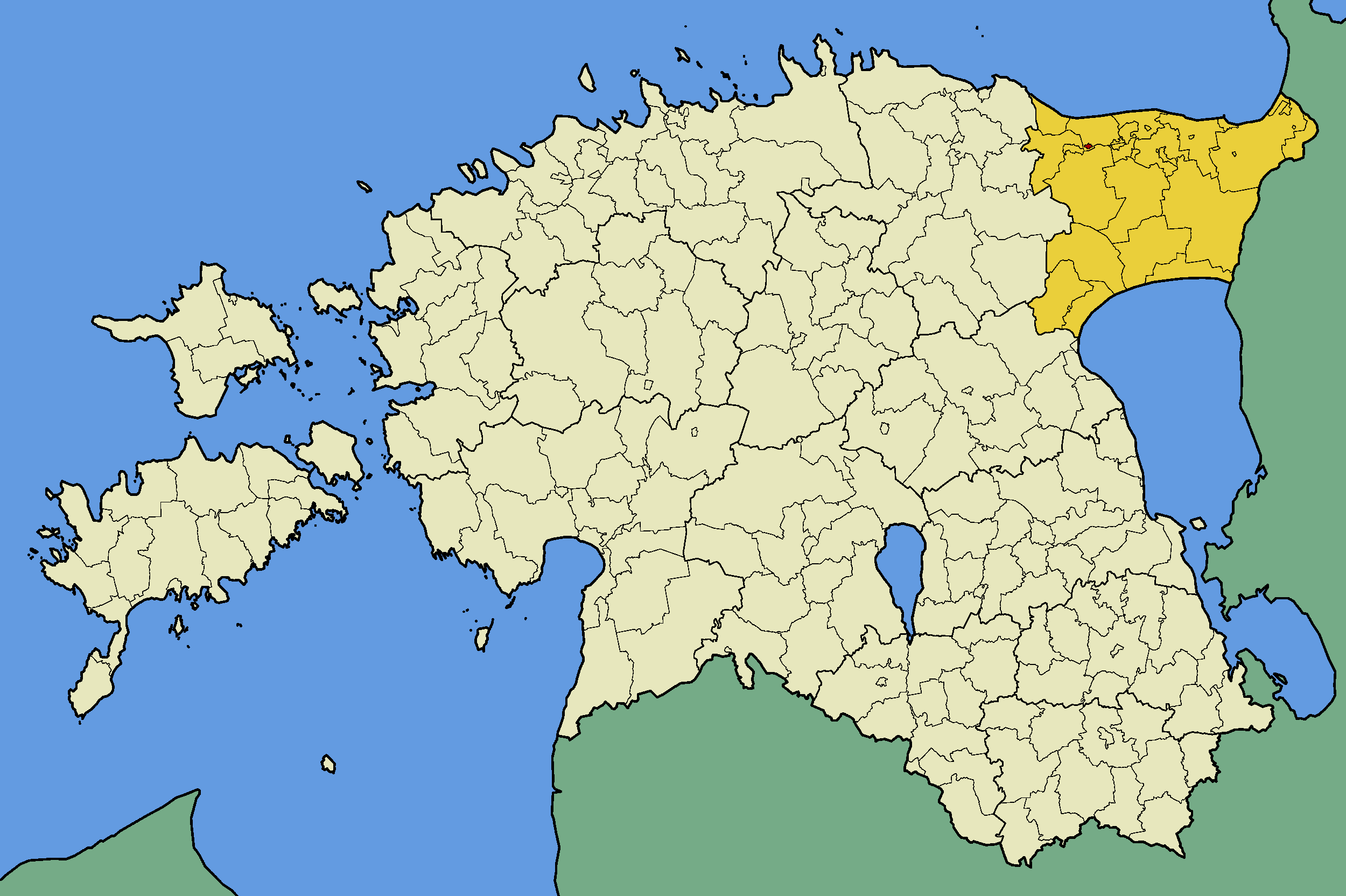 Map of Estonia with borders of municipalities (parishes). Ida-Viru county and Püssi town municipality emphasized.